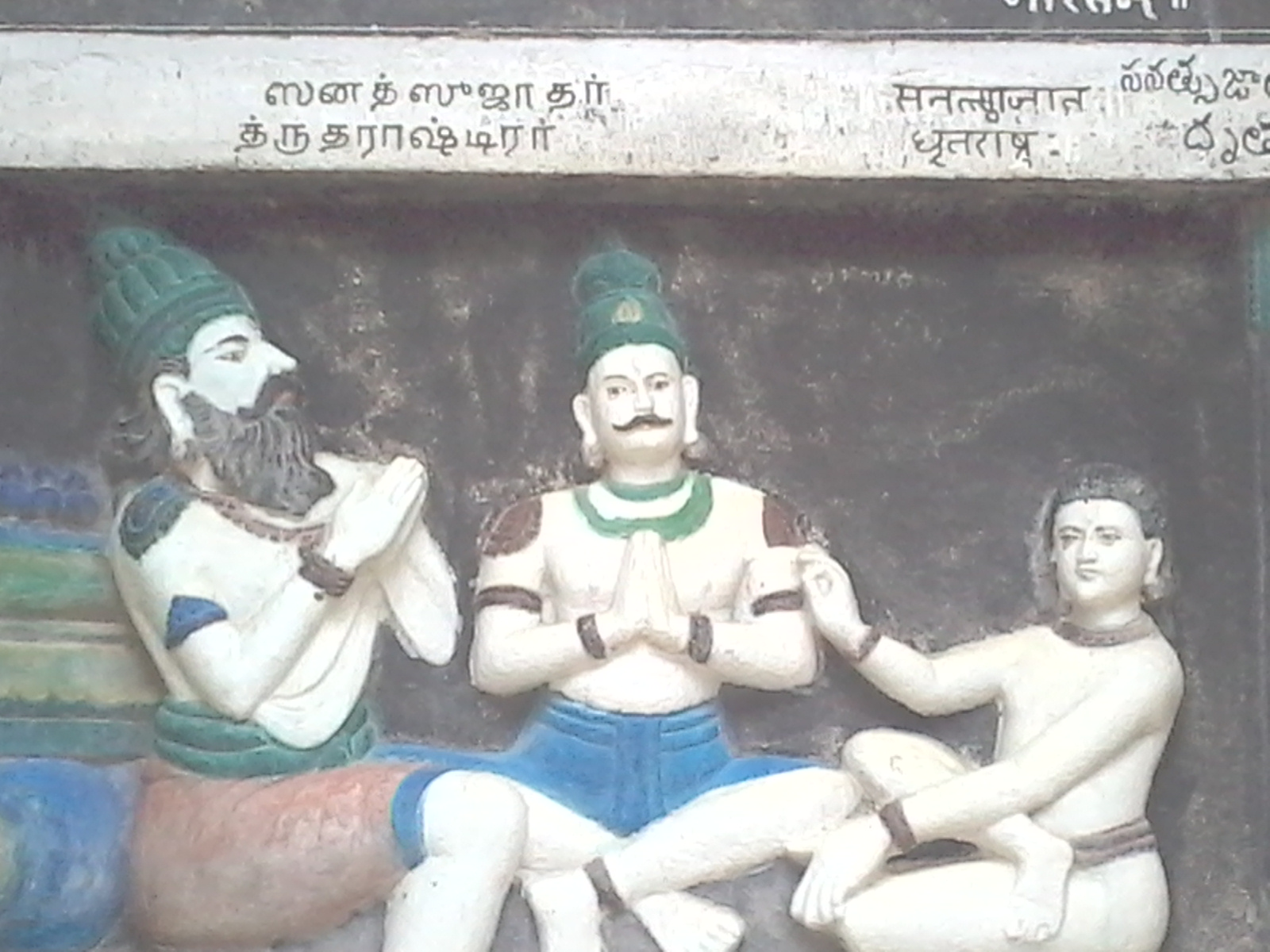 by request of Vidura, Sage sanathkumara teaches king dhirutarashtra